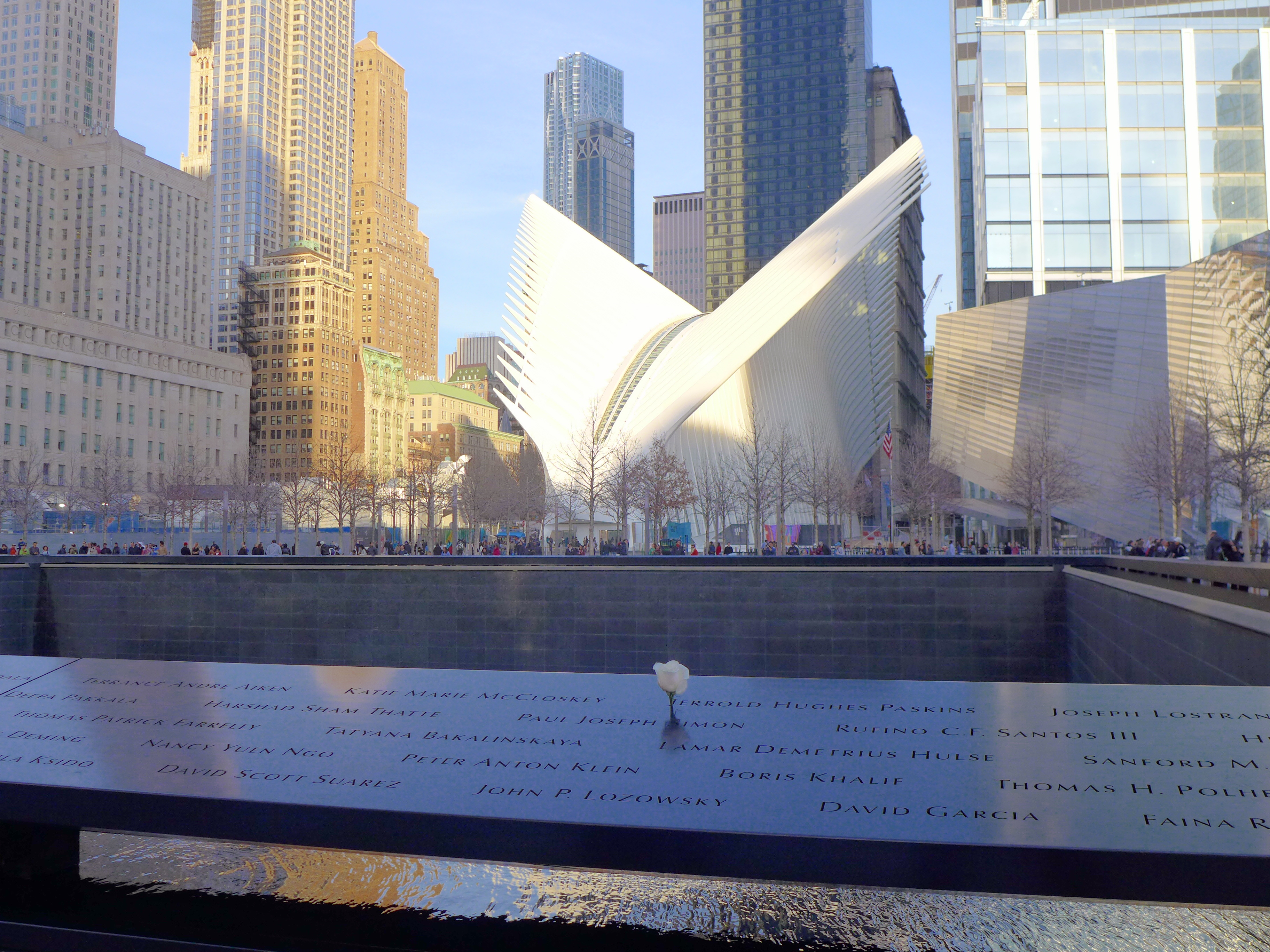 A view of the Oculus on Vesey Street with the WTC Memorial in the foreground